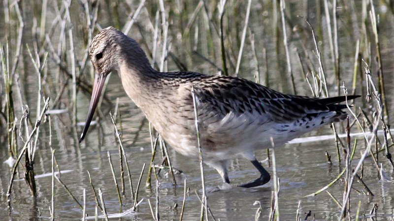 Bar-tailed Godwit (Limosa lapponica)